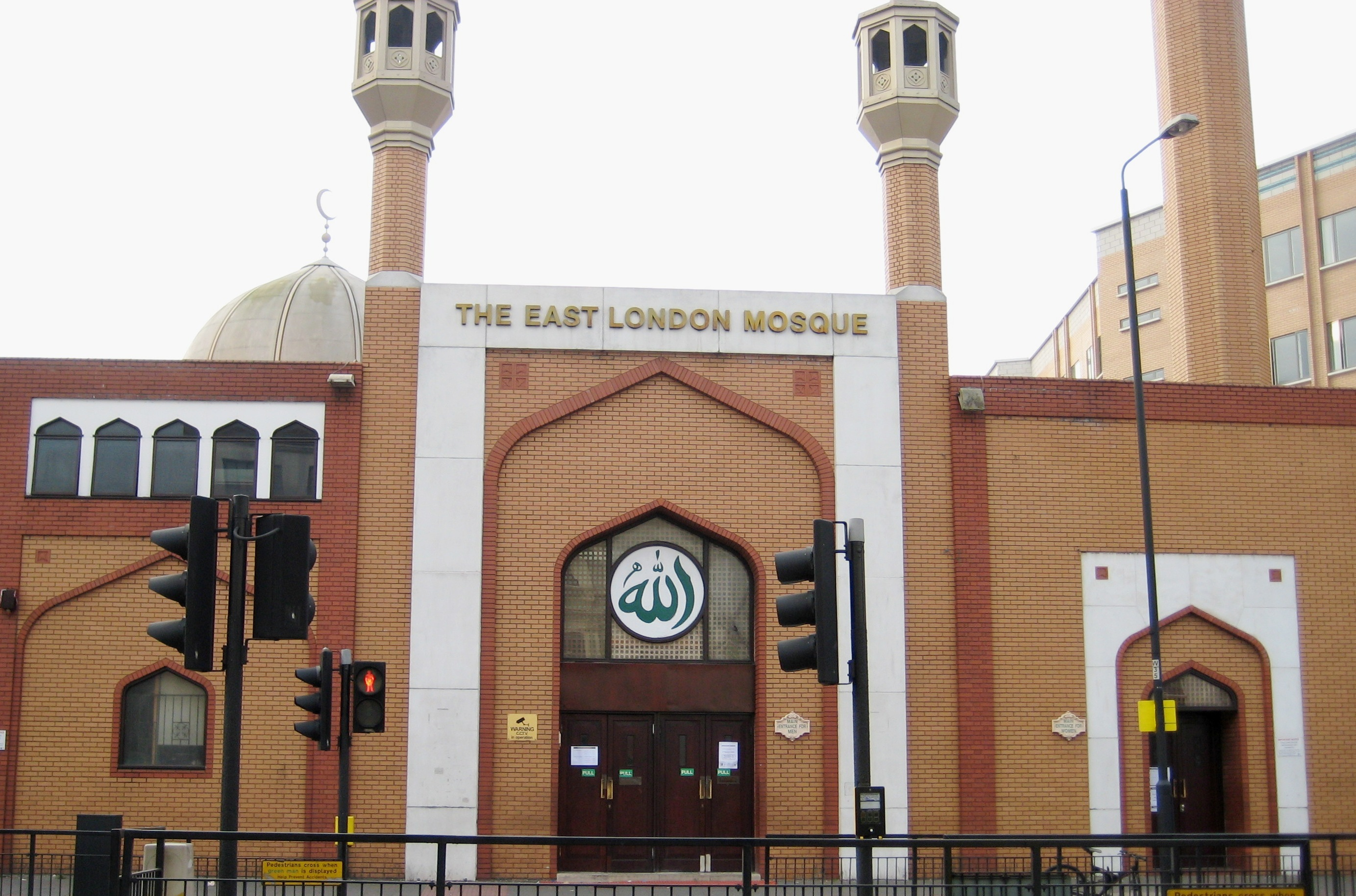 Front view of the East London Mosque, London as seen from Whitechapel Road.